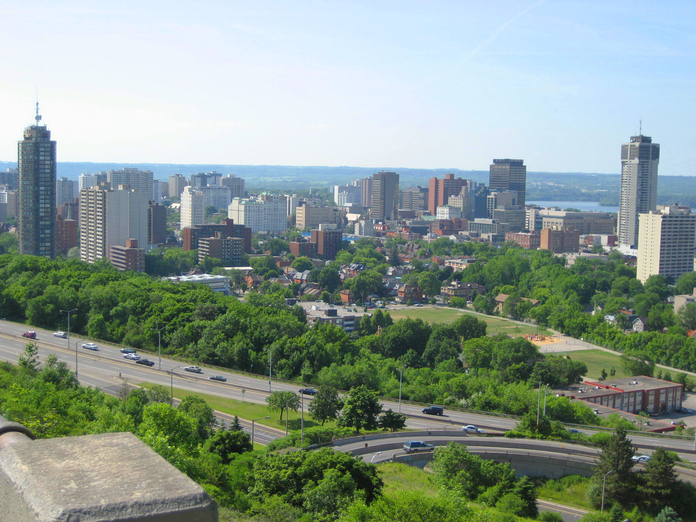 Hamilton Skyline, view from atop the Niagara Escarpment. The Hamilton skyline. Hamilton Skyline, view from below Sam Lawrence Park. Hamilton Skyline, view from mountain.